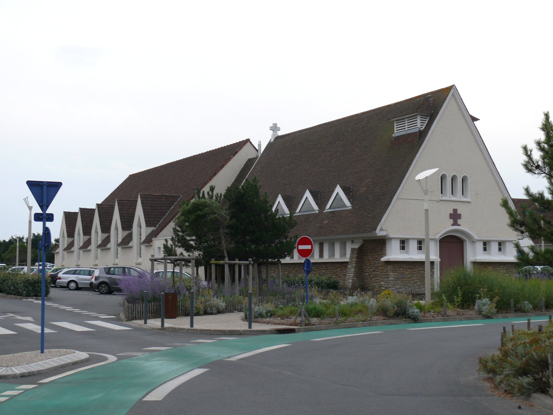 Saint-Augustin's church of Neufchâtel-Hardelot (Nord, France).